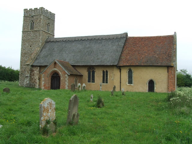 St John the Baptist Butley The church of St John the Baptist Butley, Suffolk for more info on the church